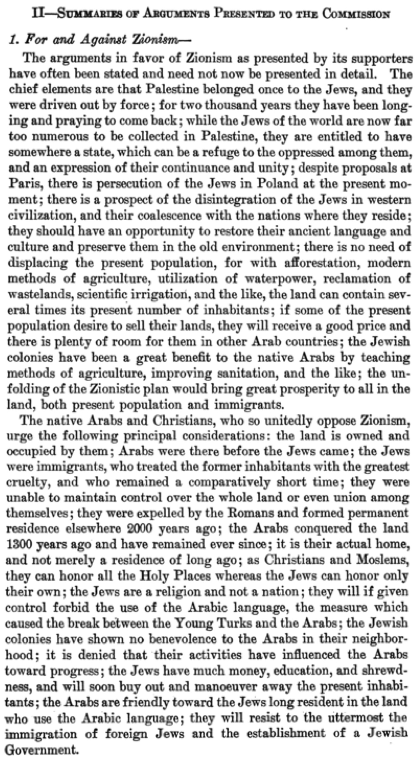 King Crane Commission 1919 Summary of Arguments Presented to the Commission For and Against Zionism